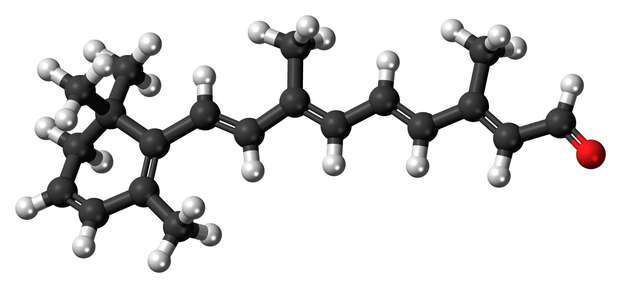 Ball-and-stick model of the dehydroretinal molecule, a derivative of retinal. Colour code: Carbon, C: black Hydrogen, H: white Oxygen, O: red